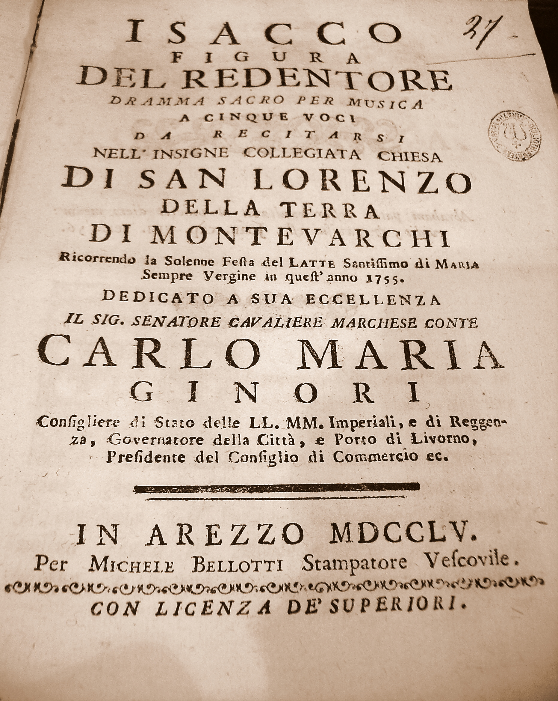 "Isaac as Redeemer" sacred drama in music. Written by Pietro Metastasio for the collegiate church of San Lorenzo in Montevarchi in occasion of the yearly celebration of the Holy Milk Day. Dedicated to Carlo Maria Ginori and published in Arezzo on 1755. Music by Niccola Jomella